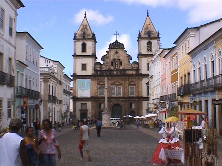 own work